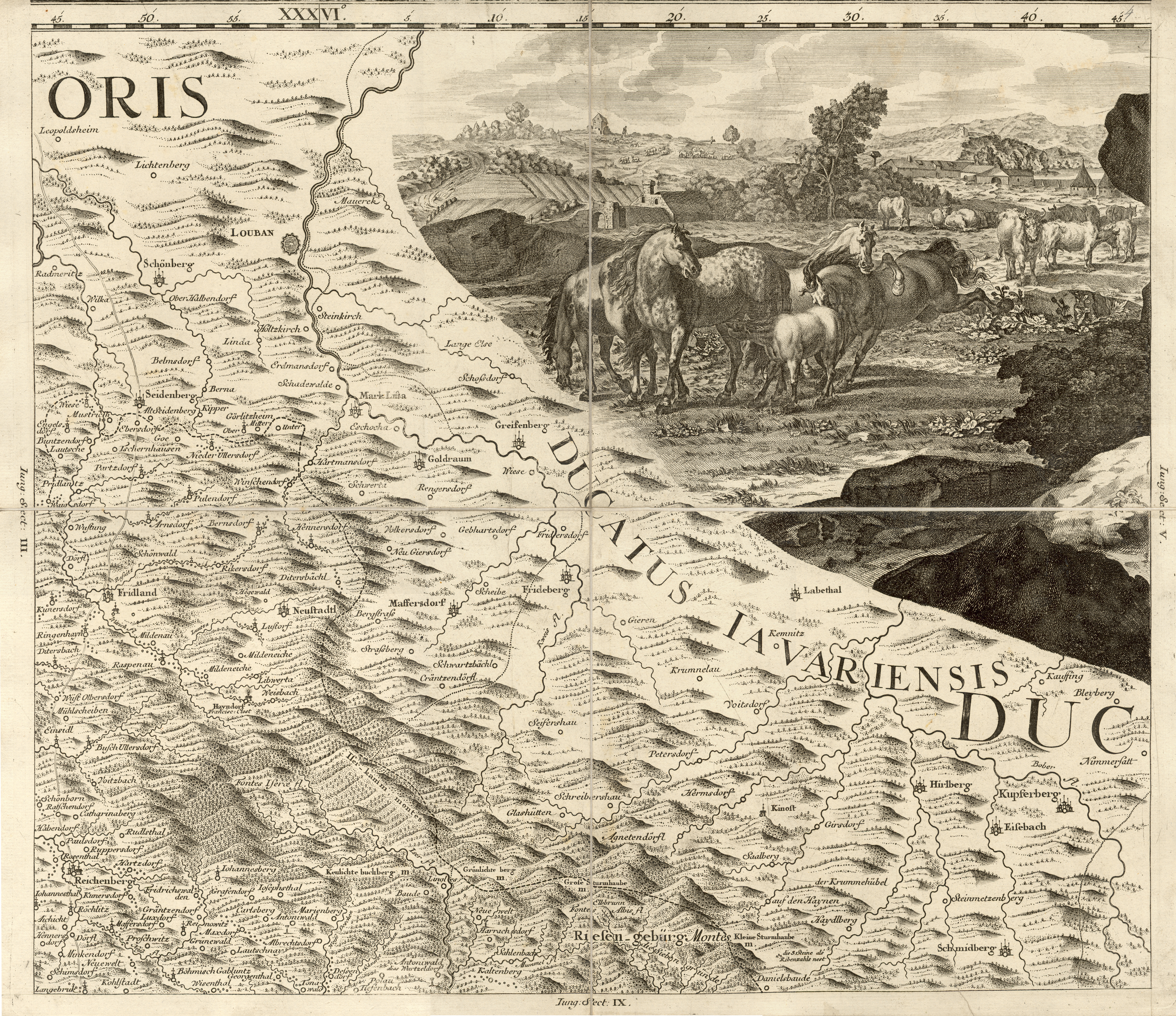 Müller's map of Bohemia.